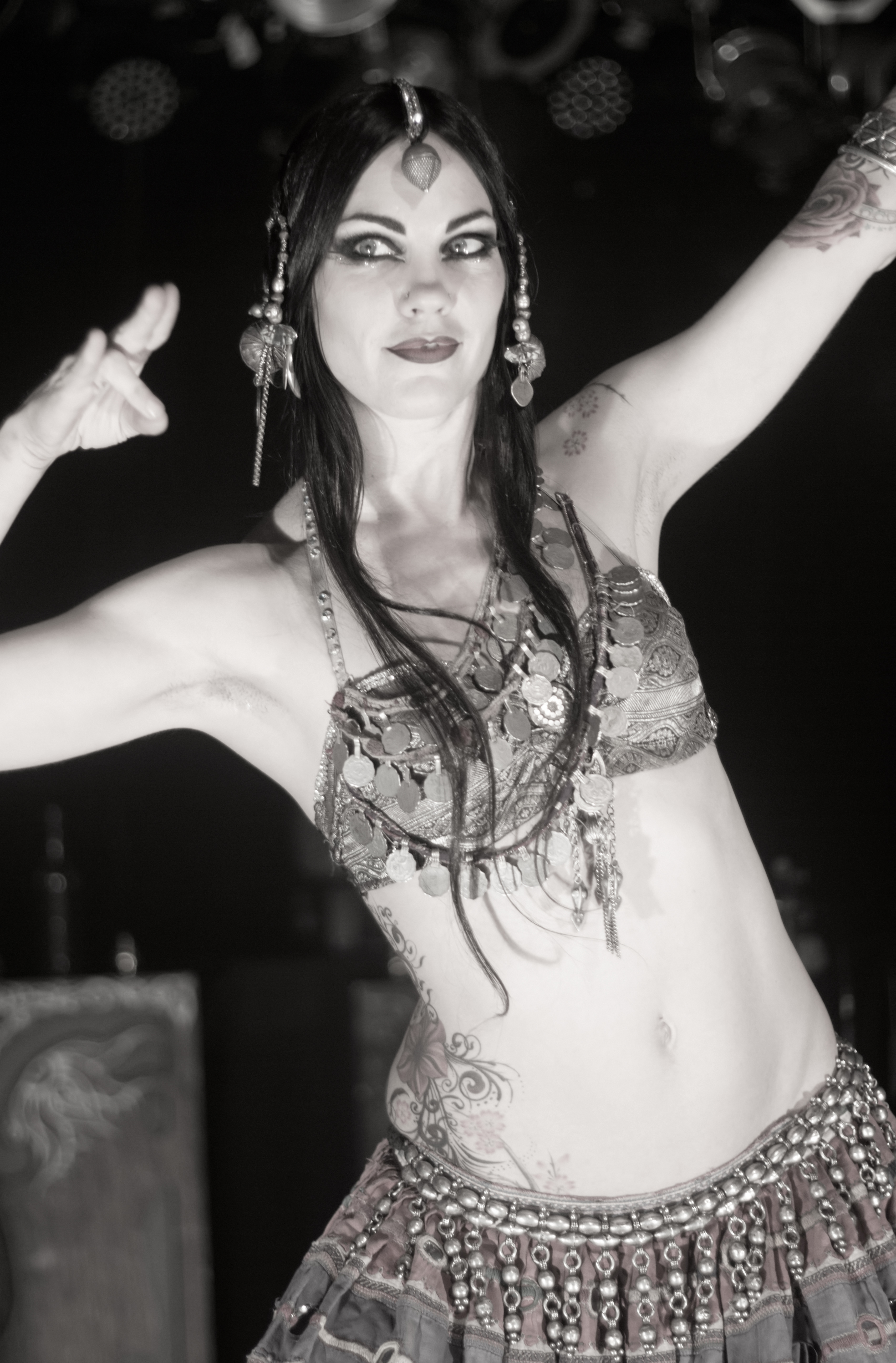 Belly dancer, musician with Beats Antique. Location: Rick's in Starkville, MS. 1/00 F1.8 ISO 400